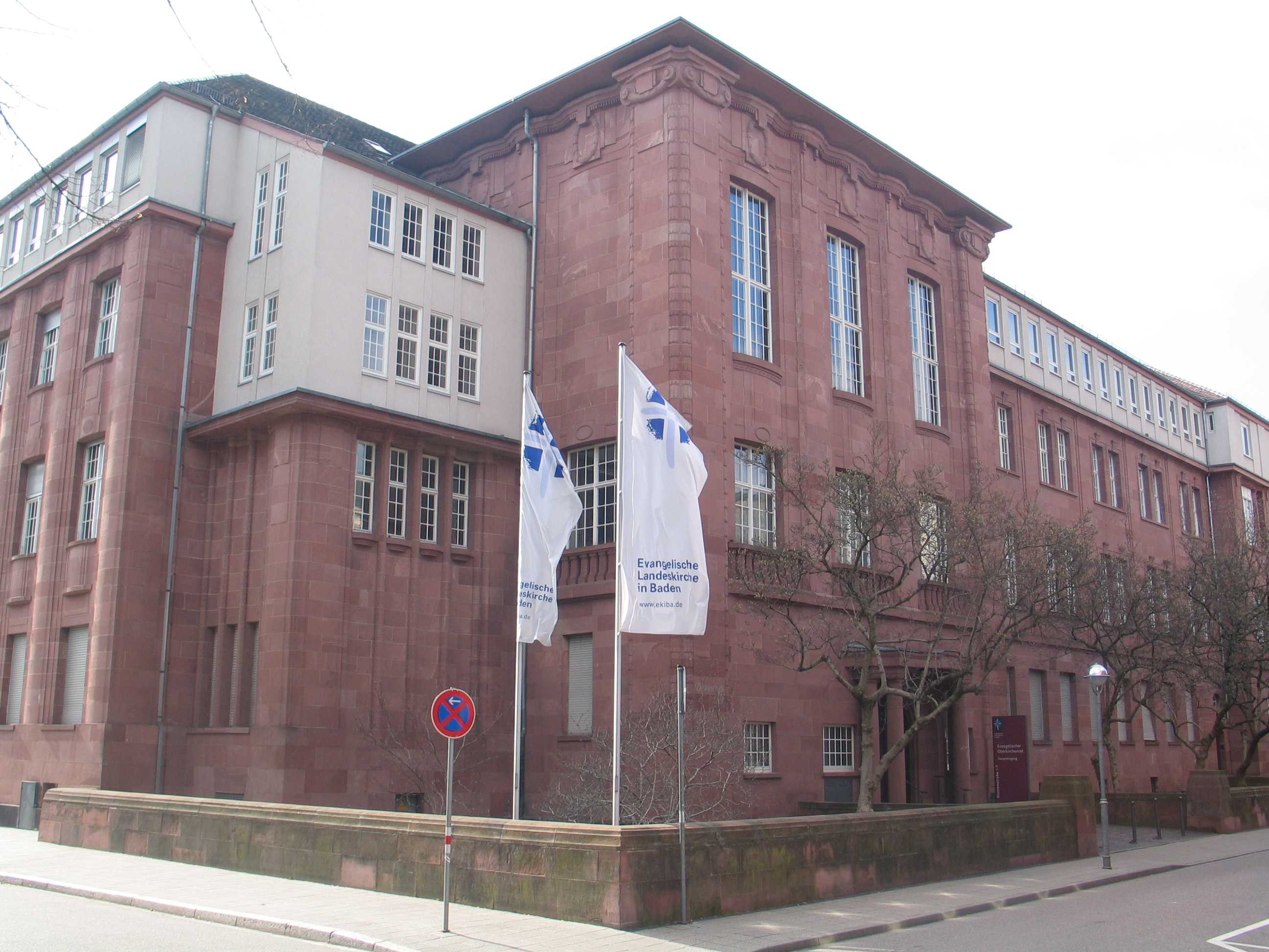 Seat of the "Evangelische Landeskirche in Baden" (Protestant church in Baden) in Karlsruhe